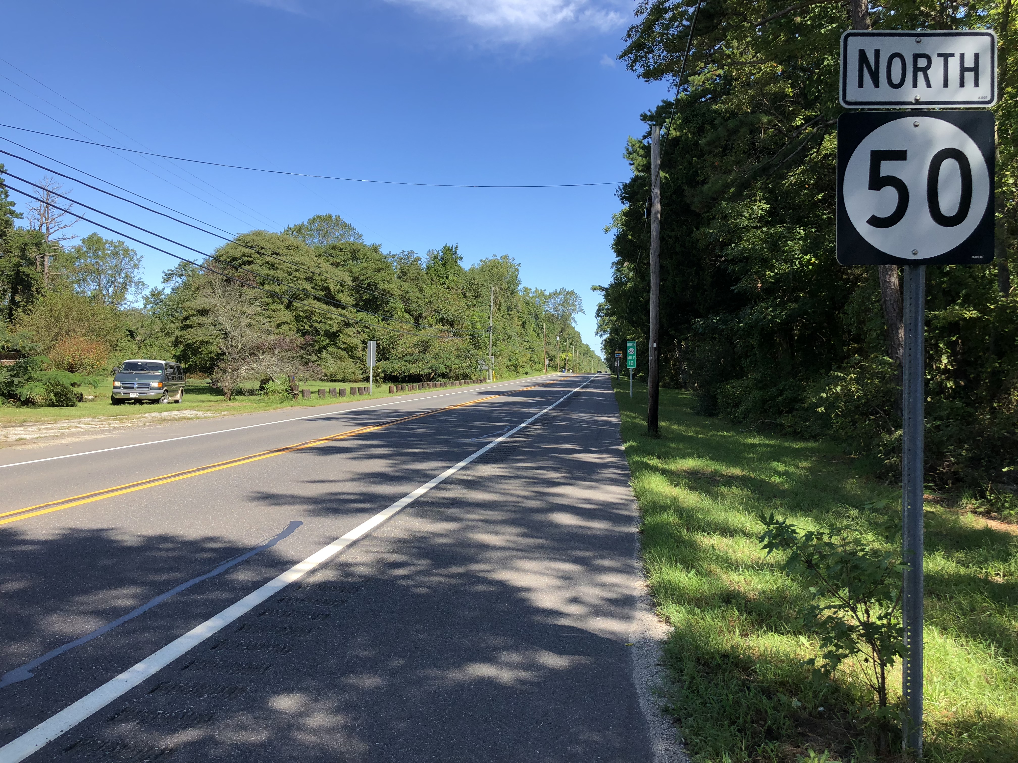 View north along New Jersey State Route 50 (Broad Street) just north of Atlantic County Route 557 (Buena-Tuckahoe Road) in Estell Manor, Atlantic County, New Jersey